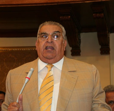 Kamal El Shazly, an Egyptian politician (1934-2010), National Democratic Party, The Majority Leader in the Egyptian parliament until his death 16 November 2010